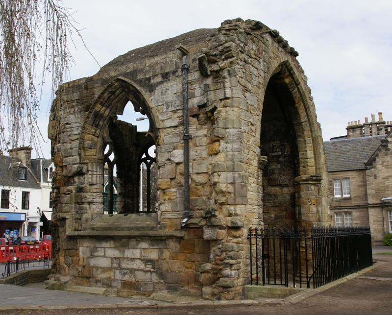 Blackfriars Chapel, St Andrews, Fife, Scotland